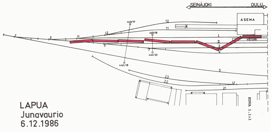 Train accident in Lapua on December 6th, 1986. Diagram of the locations of the derailed cars.